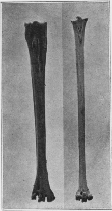 Comparison of tarsometarsi of extinct Daggett's eagle Buteogallis daggetti (left) and extant great blue heron Ardea herodias (right)